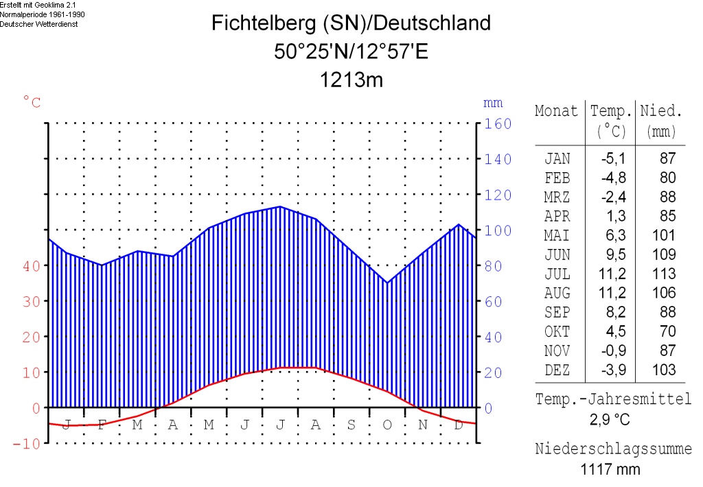 climate chart in the format by Walter and Lieth, metric, °Celsisus and millimeters, made with Geoklima 2.1